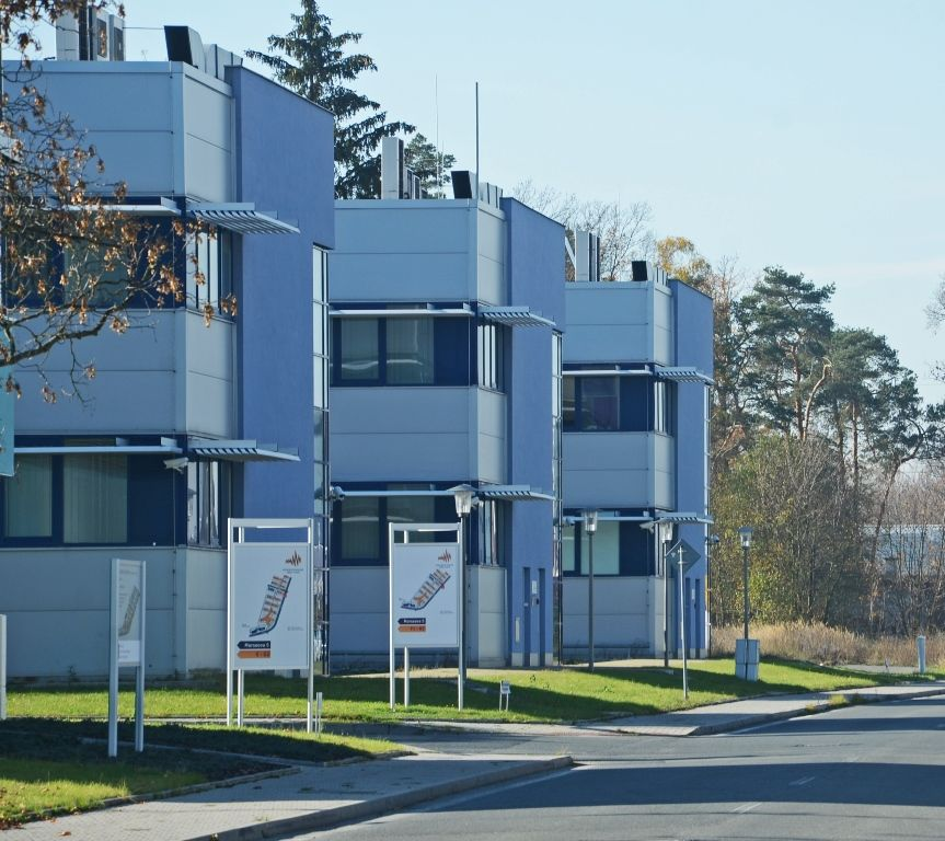 Building of NTC: New Technologies Research Centre - University of West Bohemia, Pilsen, Czech republic